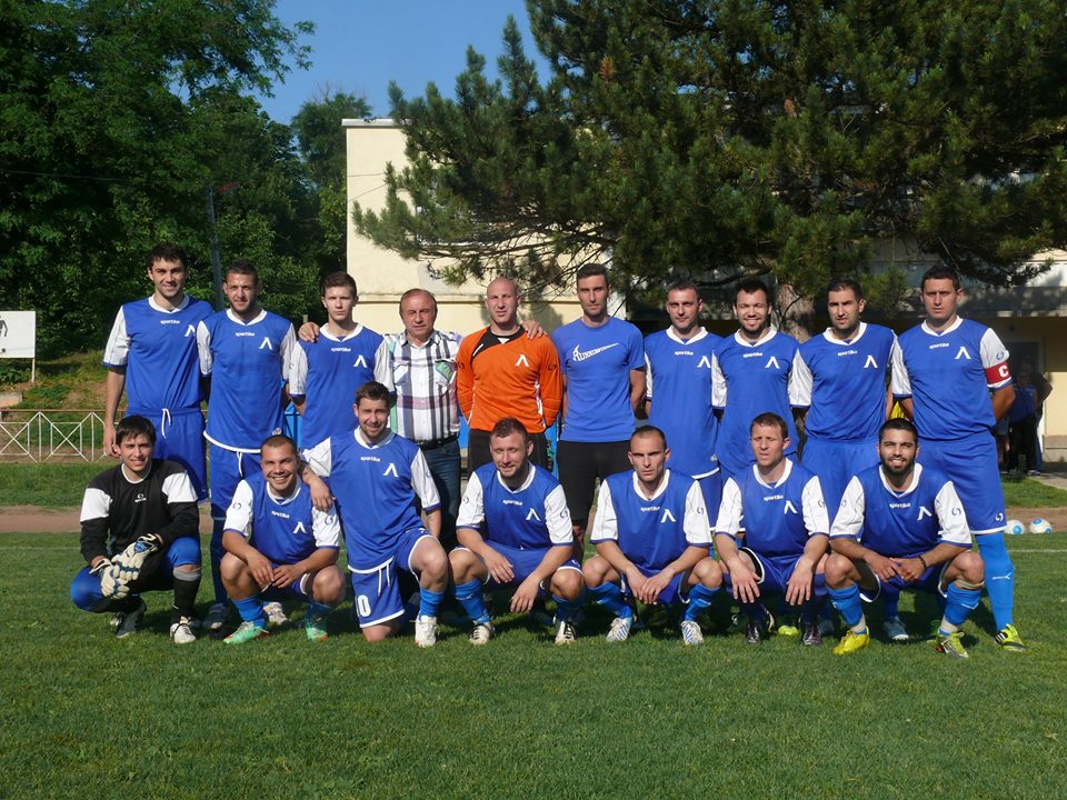 OFK Levski